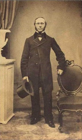 Jacob Jacobsen (1816-1893), Danish estate owner and politician, MP